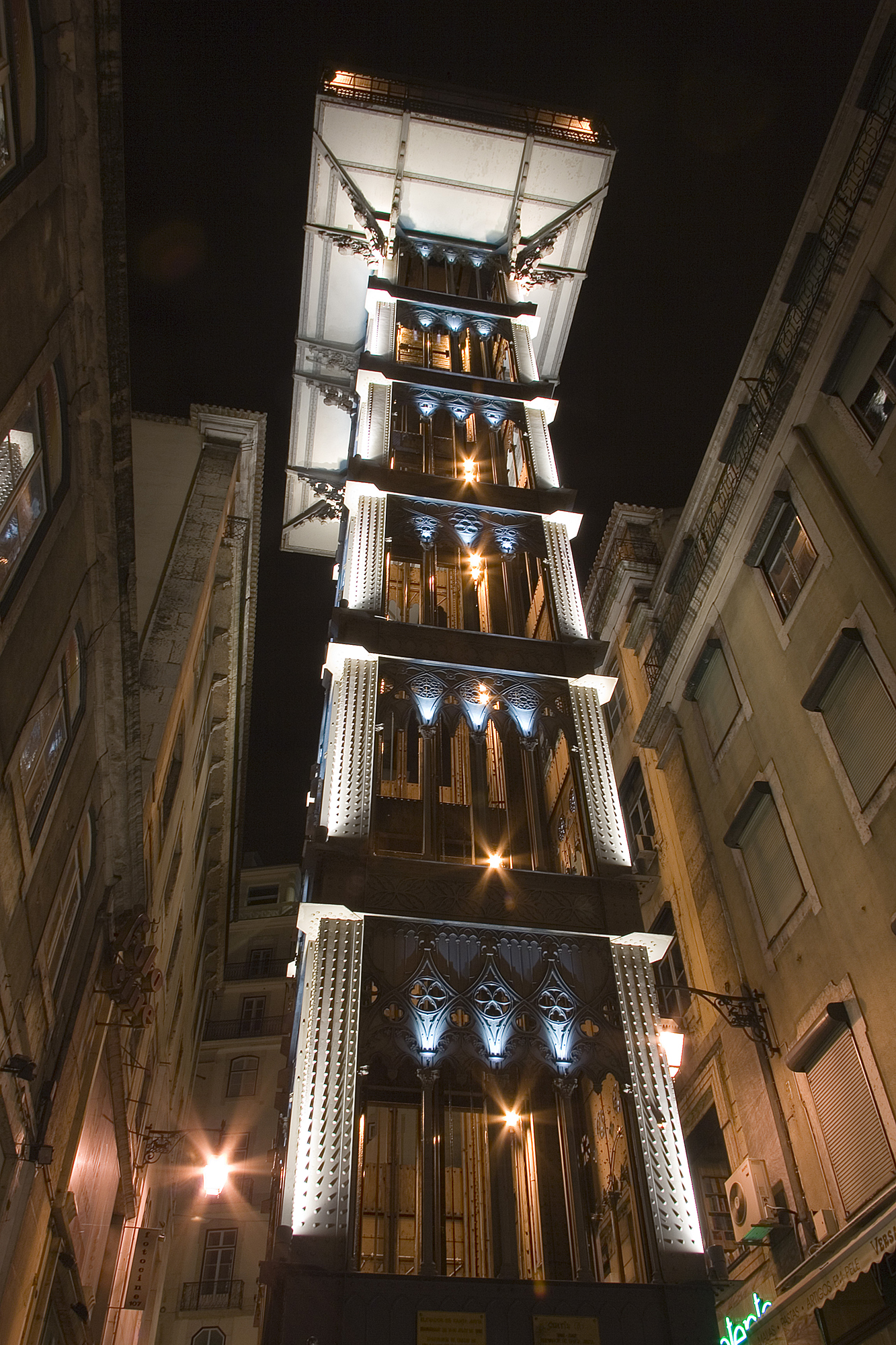 Lisbon historic elevator de Santa Justa. Portugal